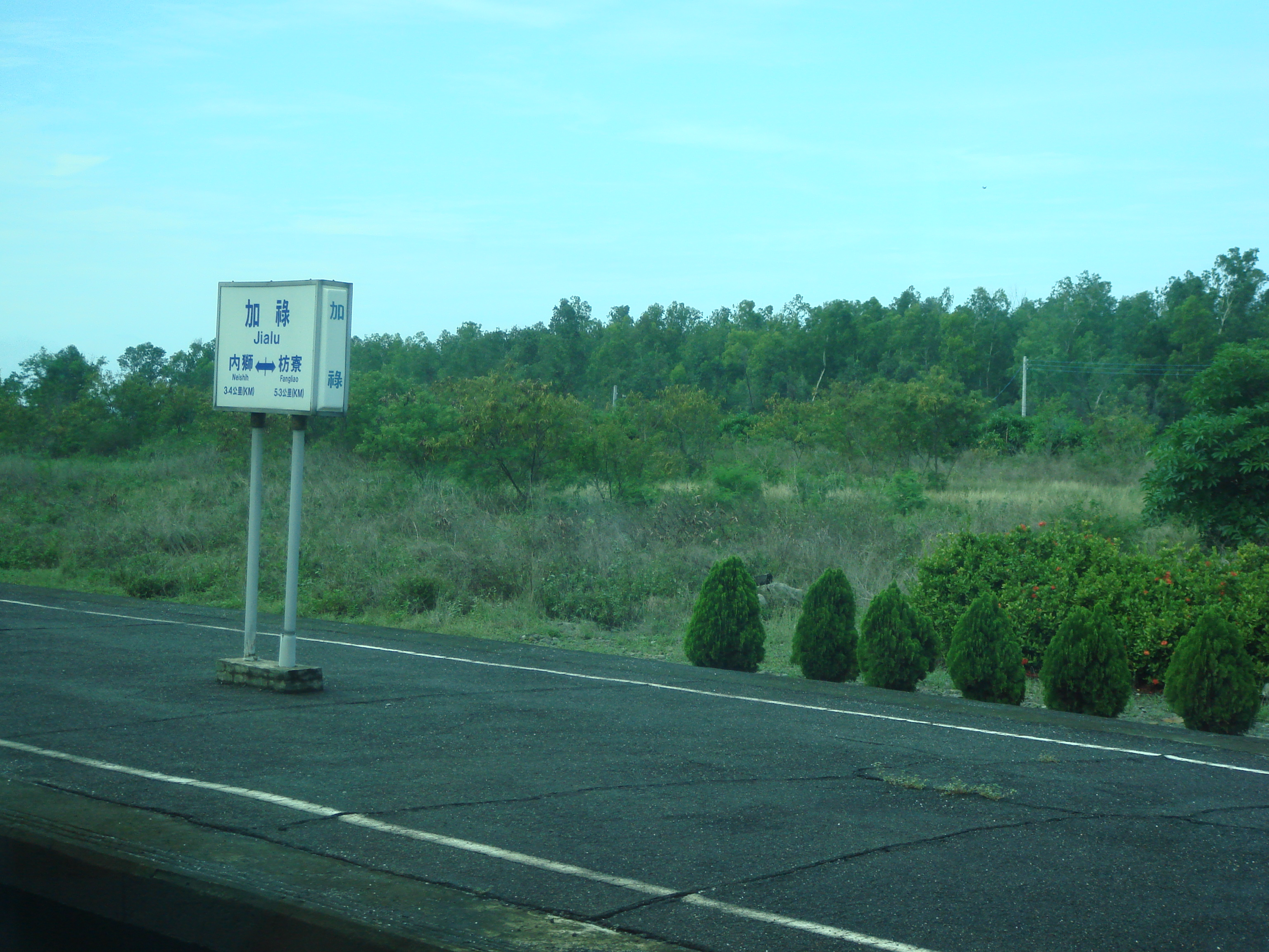 TRA Jialu Station platform.